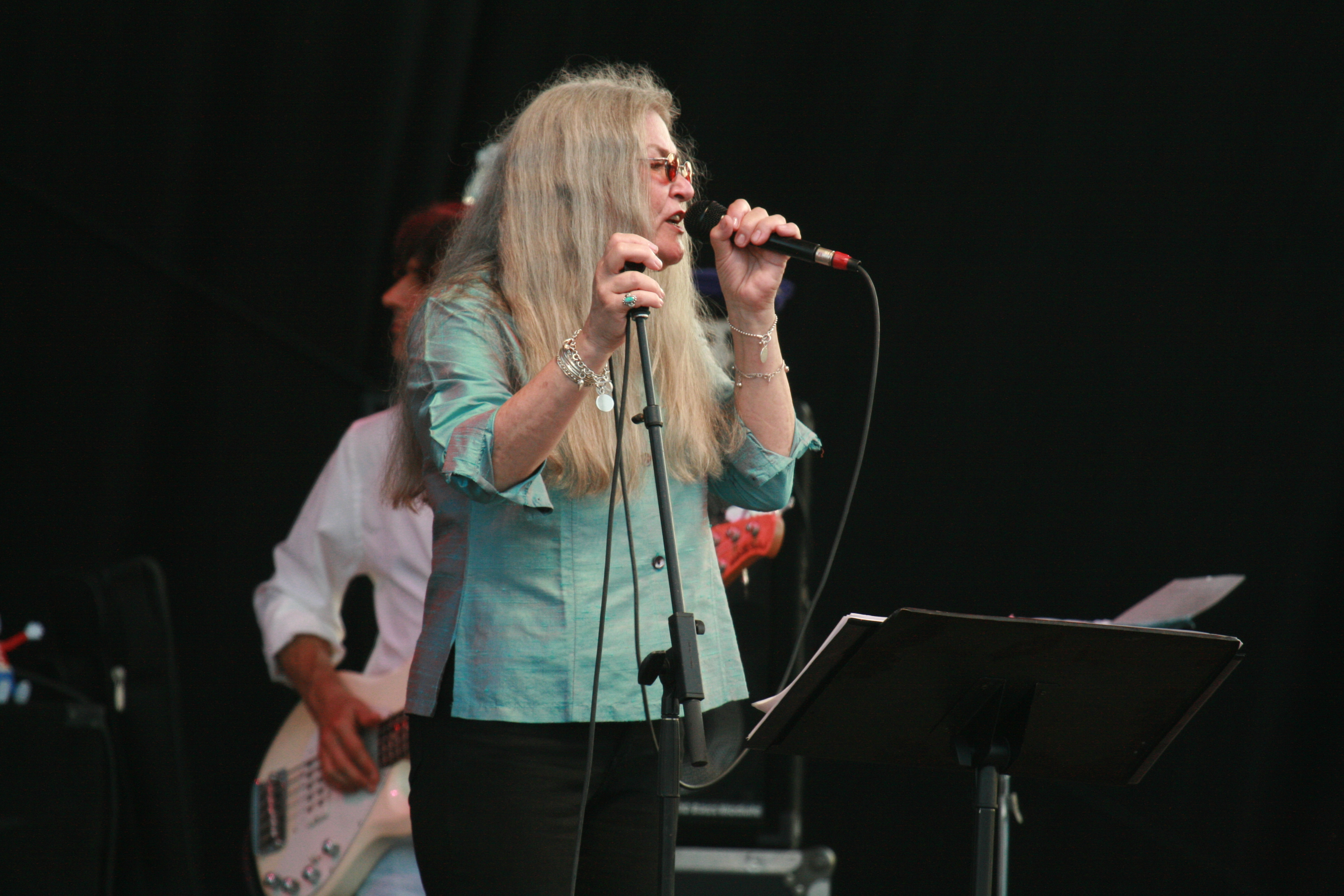 Donna Jean Godchaux, performing with the band Donna Jean & the Tricksters at the Gathering of the Vibes music festival, July 31, 2008.